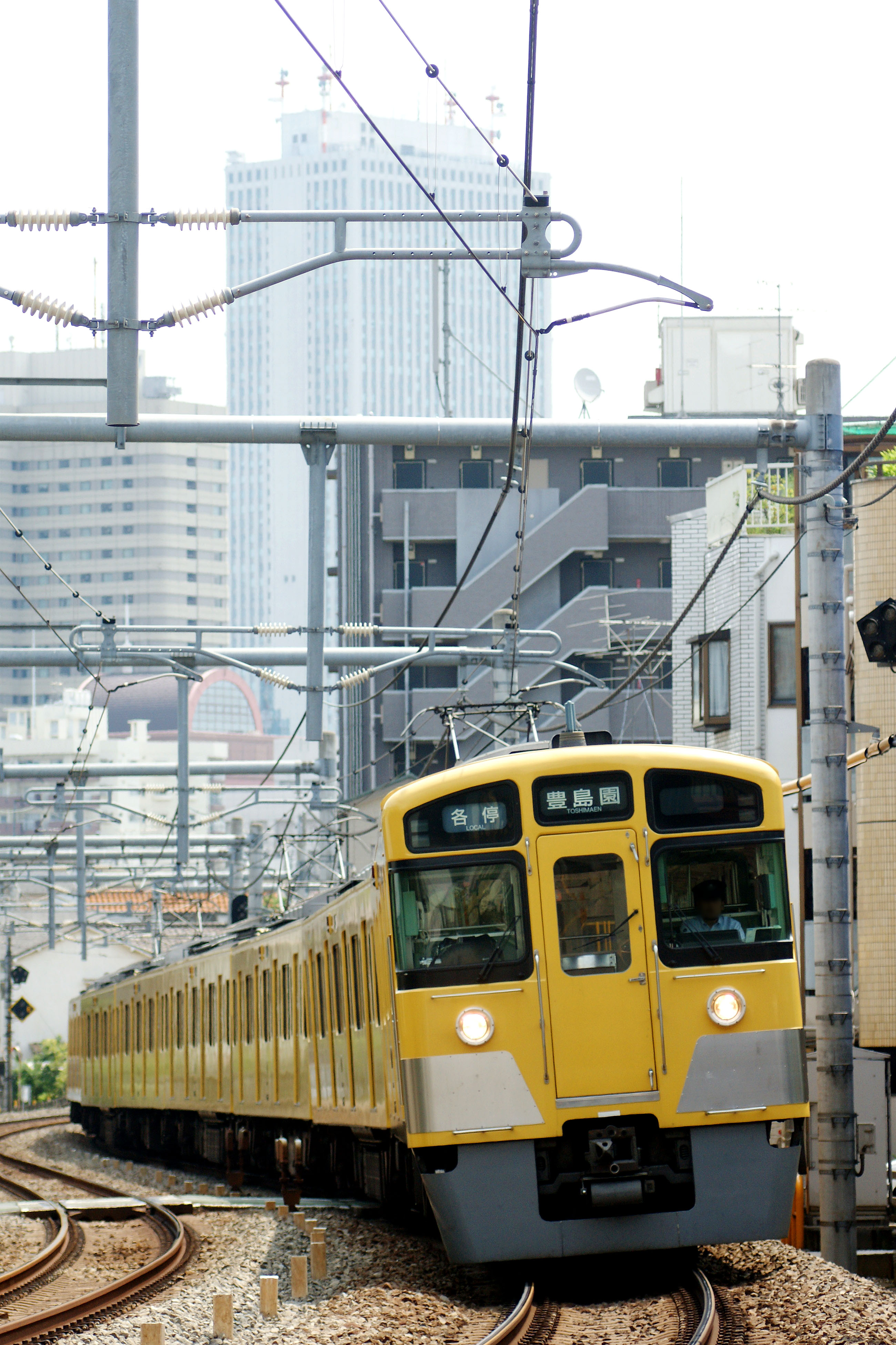 Seibu Railway 2000 series EMU on the Seibu Ikebukuro Line near Ikebukuro